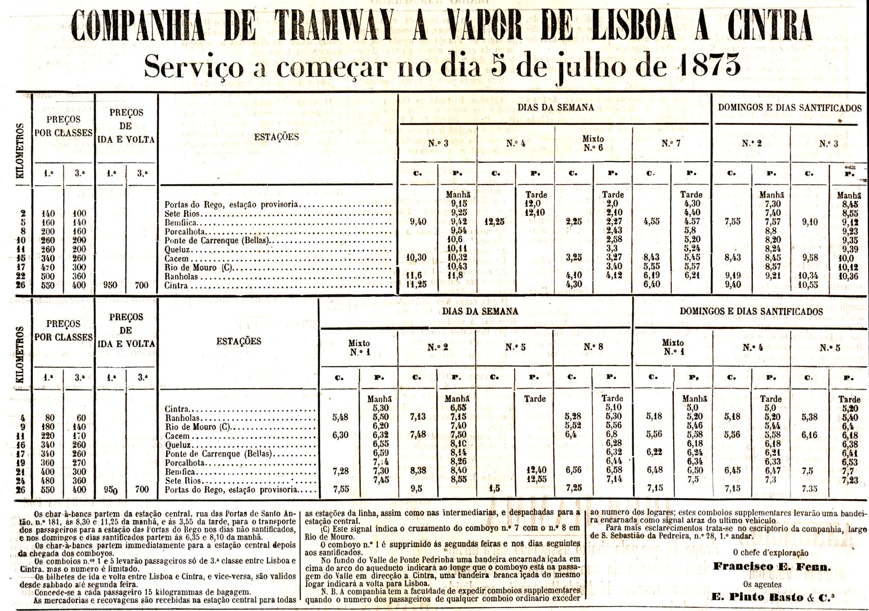 Timetable for the Larmanjat trains to Sintra, in Portugal. This image was published on the Diario Illustrado newspaper No. 344, of 8th July 1873, and scanned by the Biblioteca Nacional de Portugal.